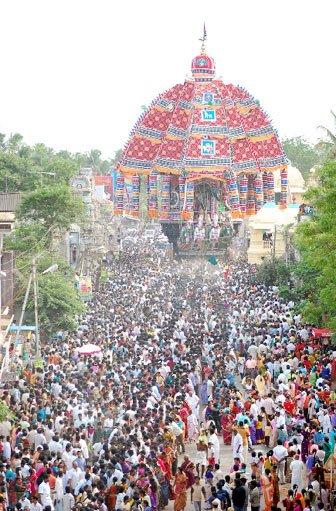 Ragumar, tiruvarur thear.